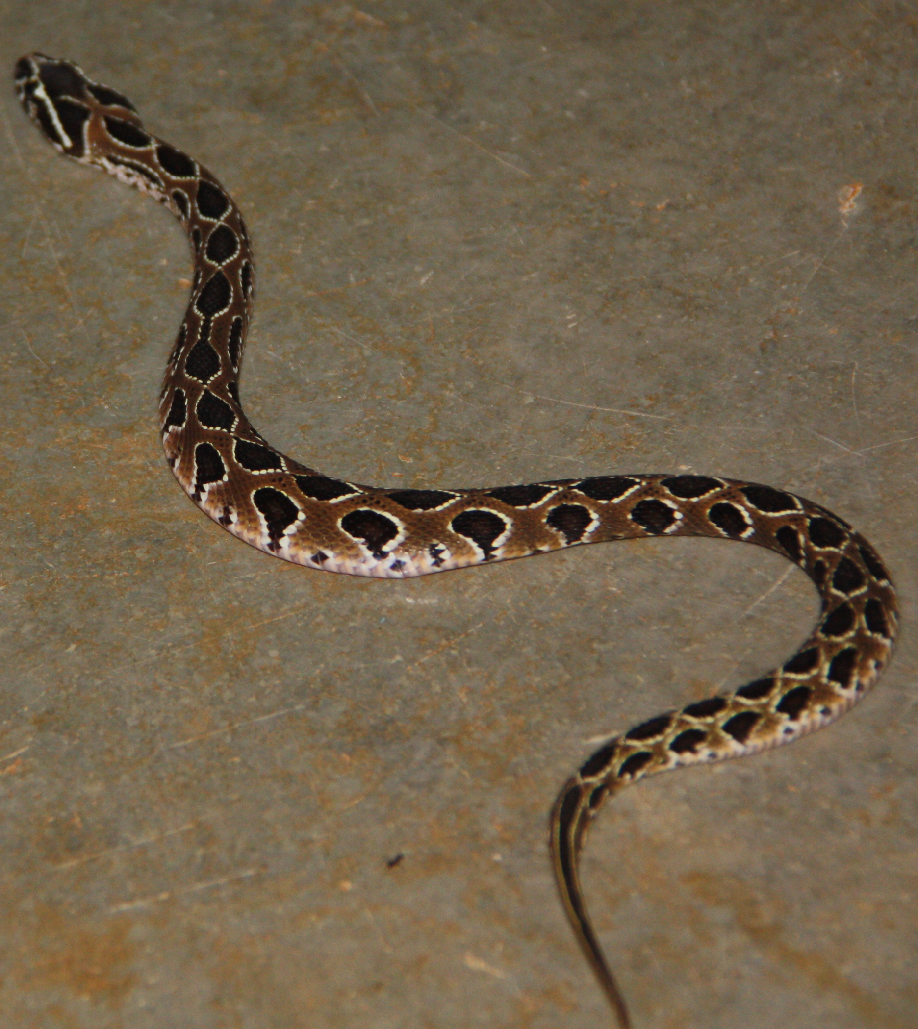 Daboia russelii, also known as Russell's viper or chain viper is a member of the big four venomous snakes in India. This young snake was found in Bhajgaon, District Pune, India, visiting a house at night. The clear pattern is very beautiful. She was captured and taken into the forrest after the picture was taken.